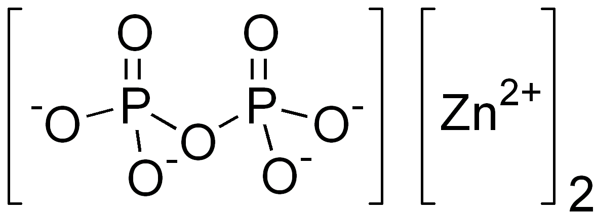 chemical structure of zinc pyrophosphate